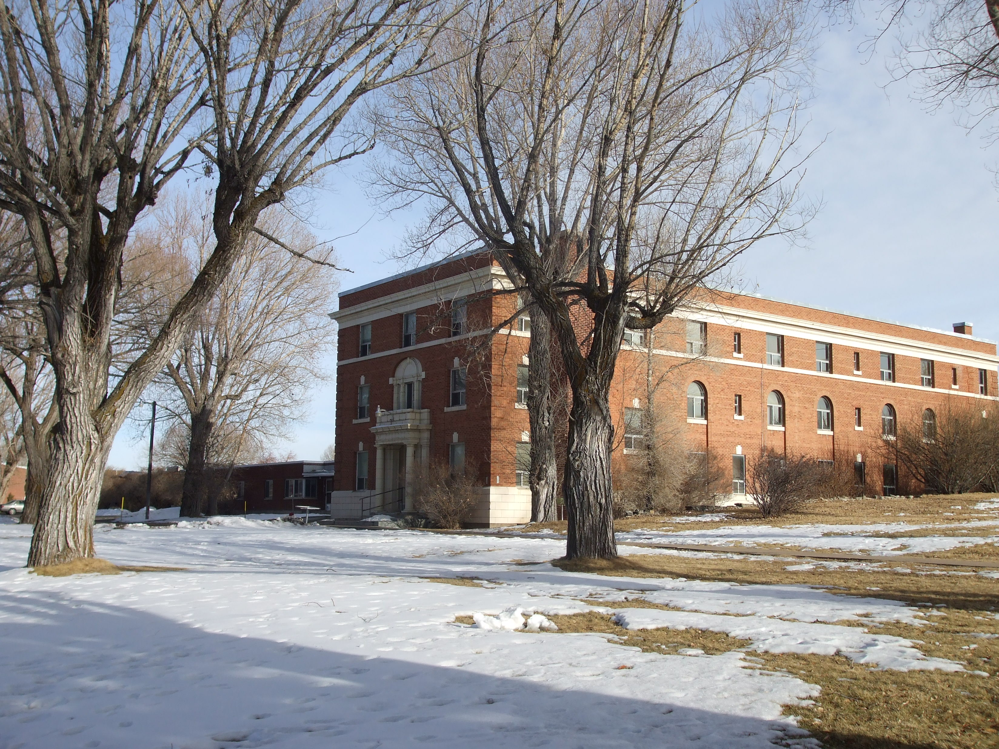 The Wyoming State Insane Asylum in Evanston, Wyoming, United States, is listed as a National Historic District on the National Register of Historic Places.